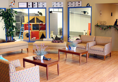 Tabby's Place main lobby showing suite from public domain TP photos.